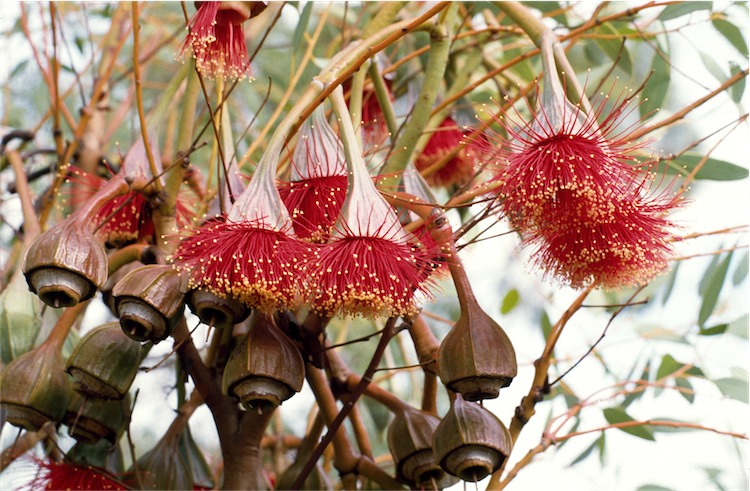 Flowers and fruit of Eucalyptus pyriformis in a private garden, Tranmere, Adelaide, South Australia